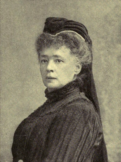 Picture of Bertha von Suttner